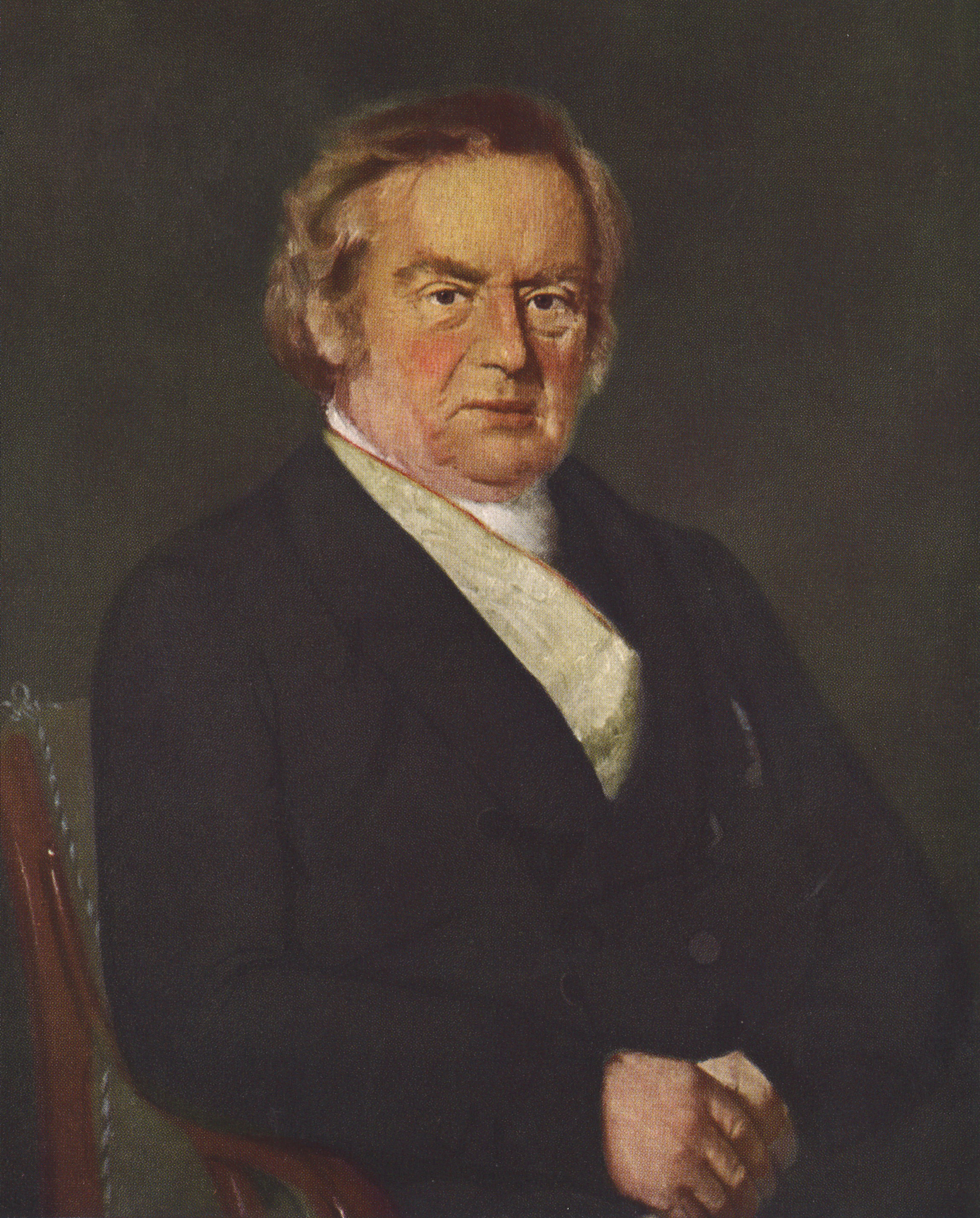 Anders Sandøe Ørsted (1778-1860), Danish jurist and statesmman.